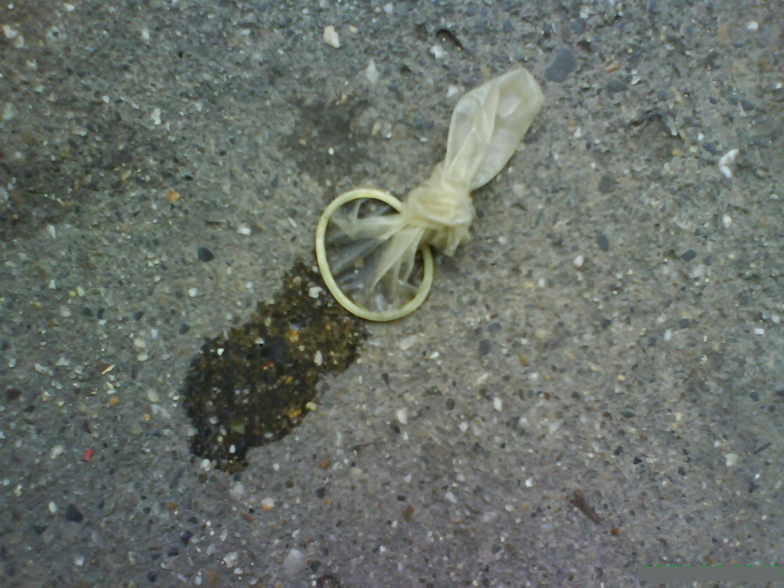 used condom (blur in bottom right is where the date was removed).